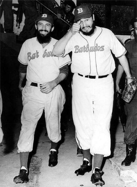 Fidel Castro and Camilo Cienfuegos before playing in a baseball match c. 1959. Their jerseys say "Barbudos" (the bearded ones).